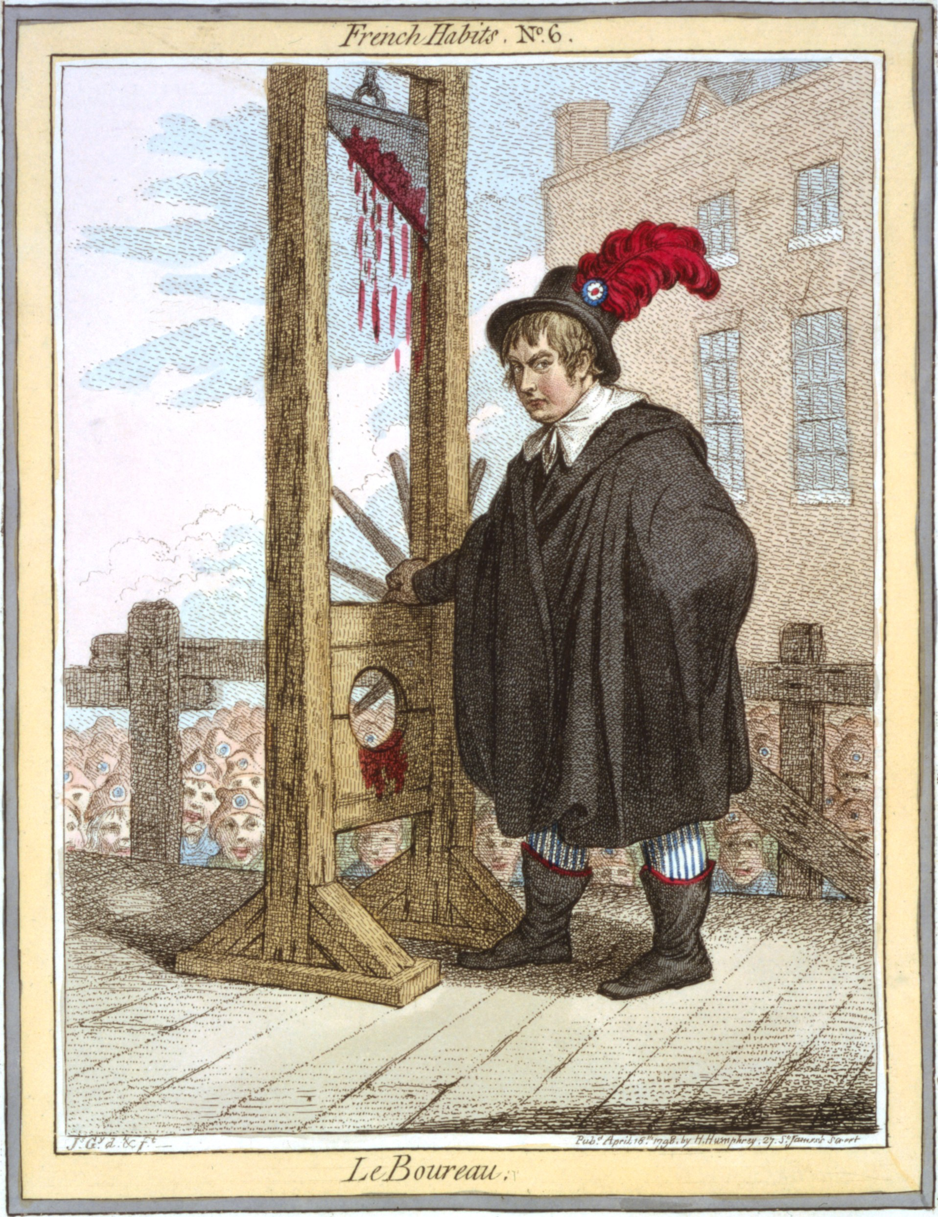 Le Bourreau (The Hangman) Js. Gy. d. & ft. SUMMARY: Cartoon shows George Tierney dressed as an executioner standing next to a guillotine with a crowd of liberty-capped citizens in the background. MEDIUM: 1 print : etching, hand-colored. CREATED/PUBLISHED: [London] : Pubd by H. Humphrey, 1798 April 18th.